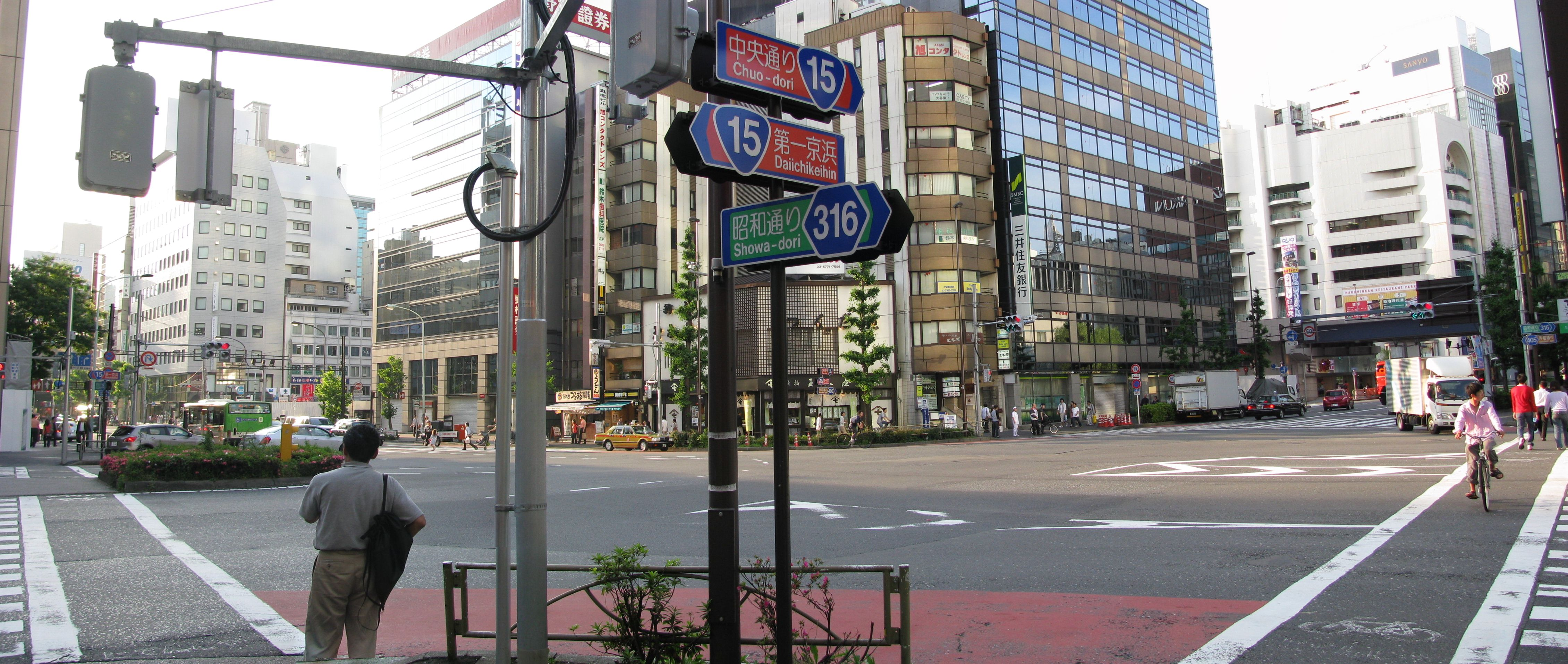 The Shinbashi Intersection is located in Minato, Tokyo, Japan.